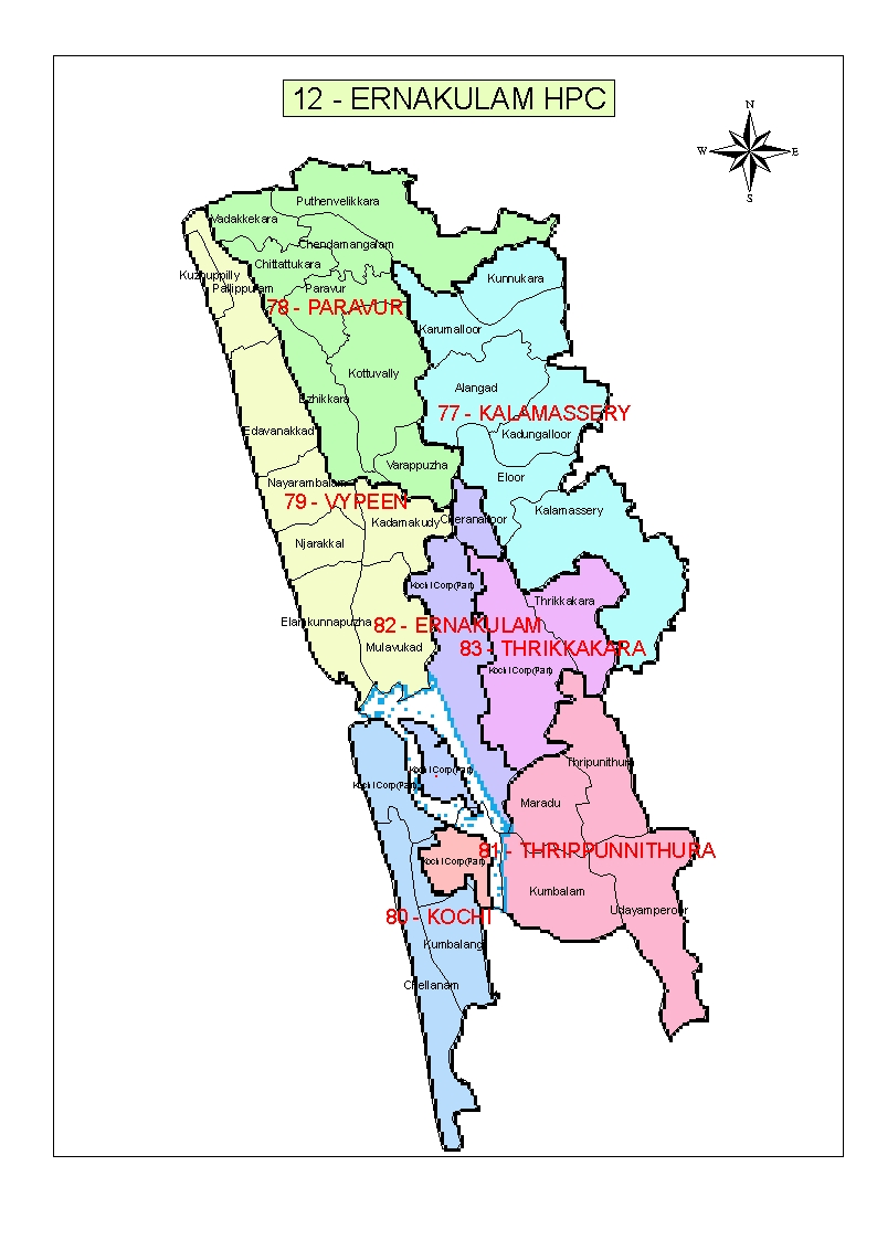 This is the map of Ernakulam Lok Sabha Constituency